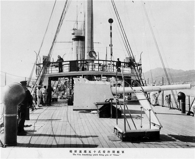 Picture of the 6-in Armstrong quick firing gun on the deck of Japanese cruiser Suma, circa 1905